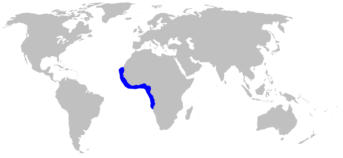 Distribution map for Scyliorhinus cervigoni